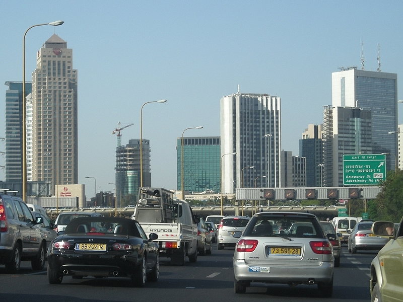 View of Ramat Gan city (Israel) from Ayalon Road